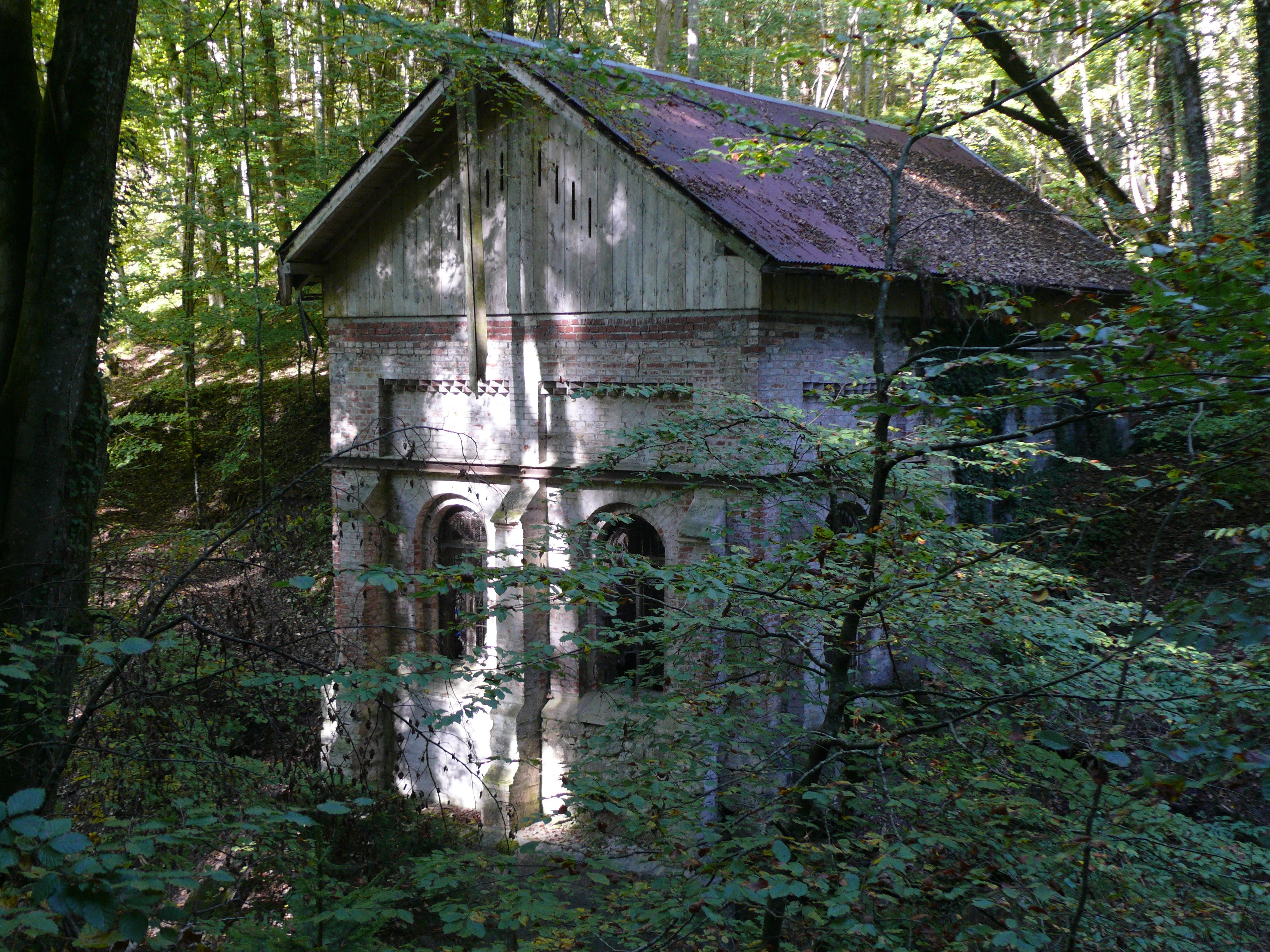 Former hydro power plant in Pähler Schlucht